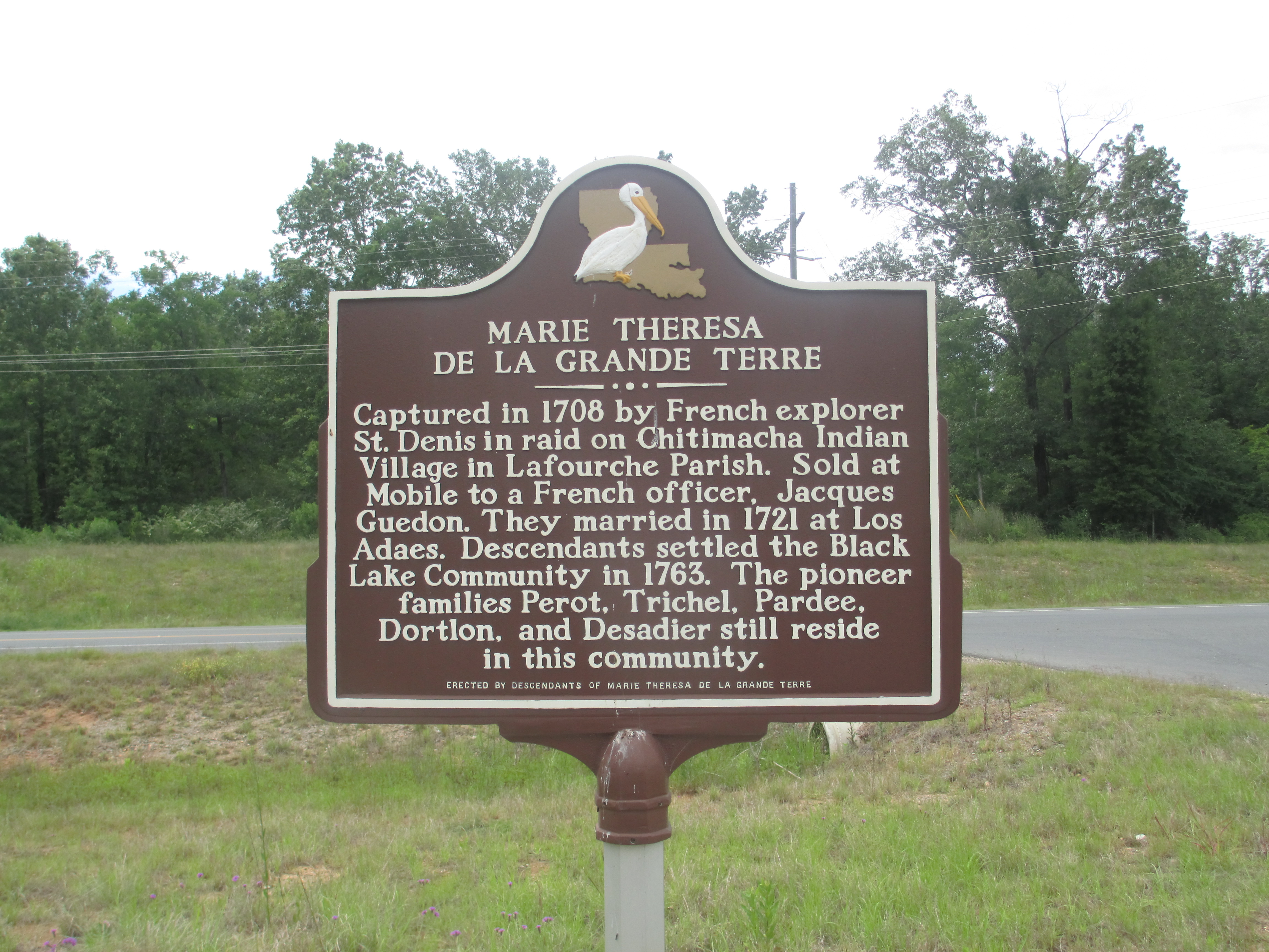 I took photo with Canon camera of state historical marker in Creston, LA, at Black Lake.